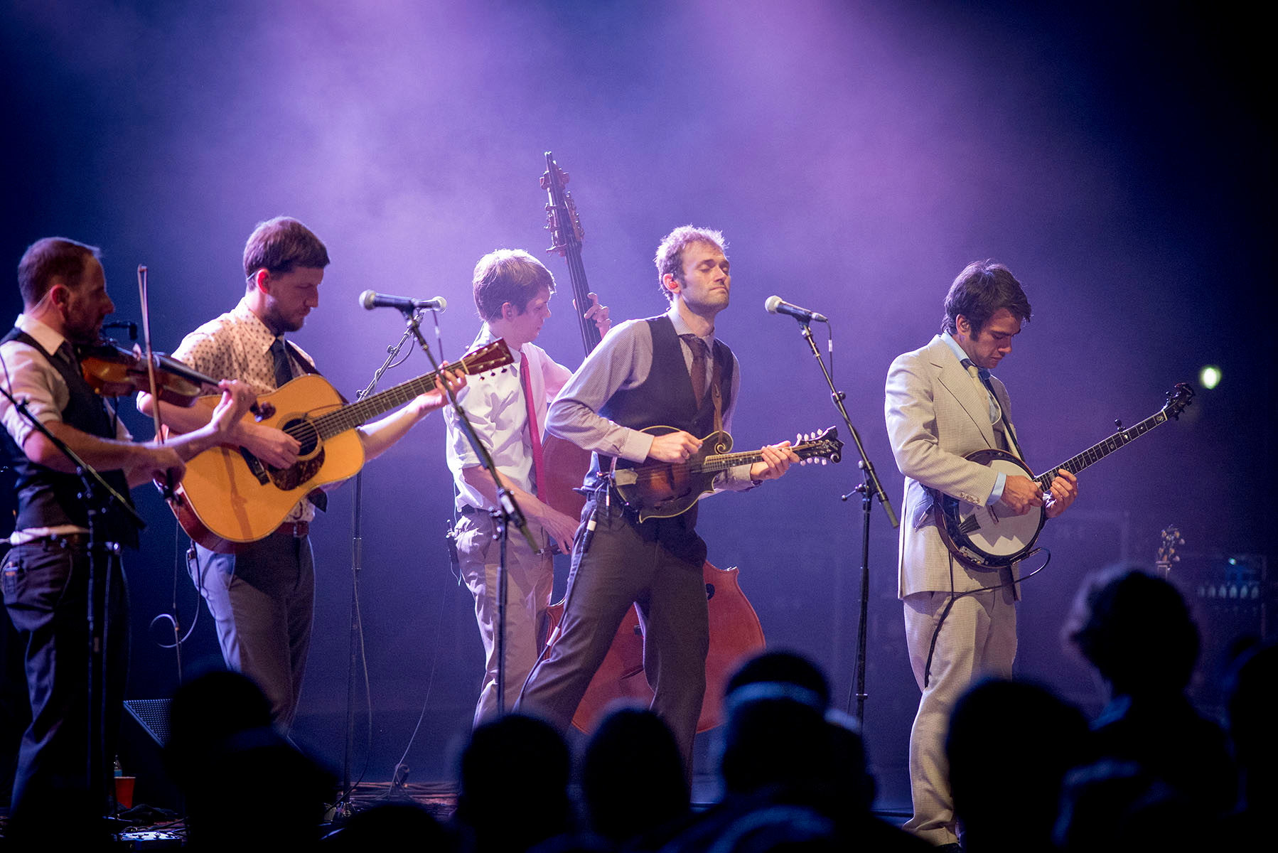 The Punch Brothers performed at the North Carolina Museum of Art on July 16, 2015.